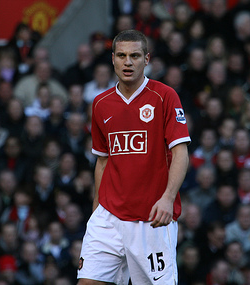 Nemanja Vidić playing for Manchester United F.C.